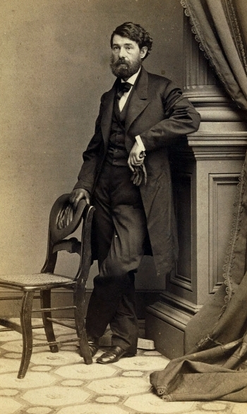 Portrait of George Barnard by Mathew Brady, Albumen silver print, National Portrait Gallery